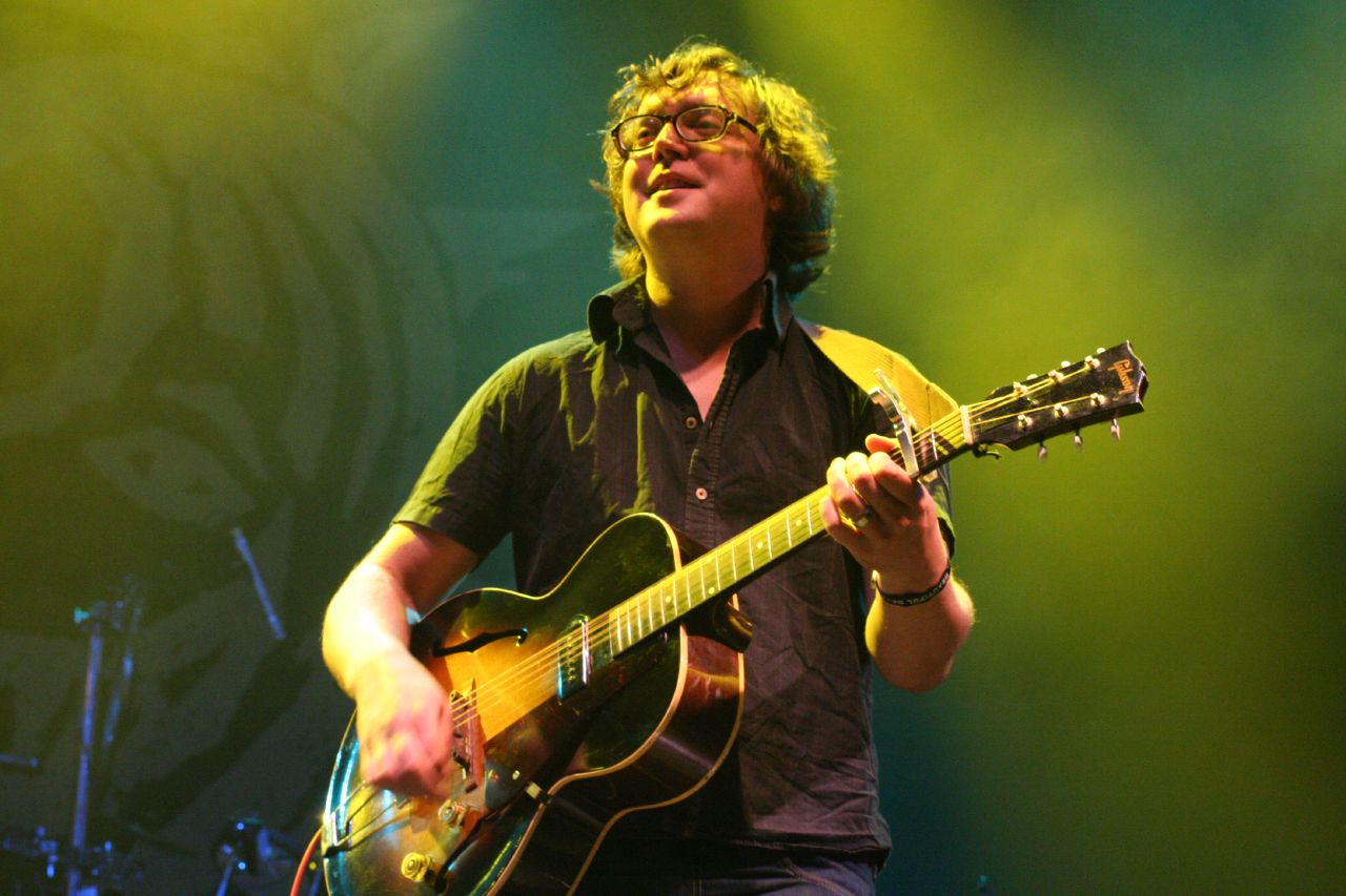 Tom Gray, (Gomez): Beautiful Days Festival, Devon, Main Stage, 18 August 2006